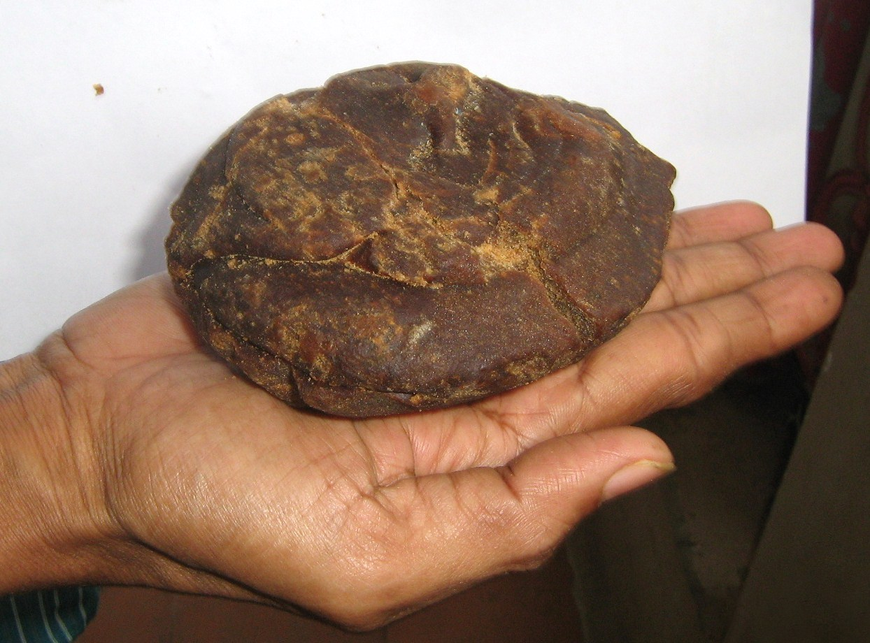 It is a palm jaggery of the state tamilnadu in India. (upper side)